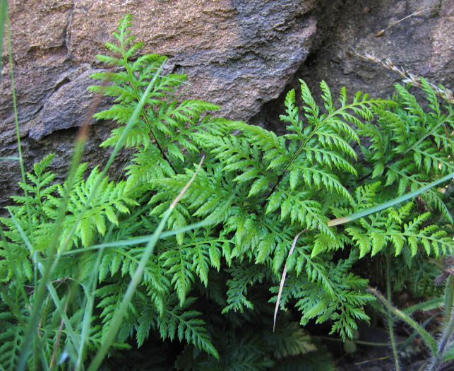 Aspidotis californica. NPS photo from Santa Monica Mountains National Recreation Area. No copyright.